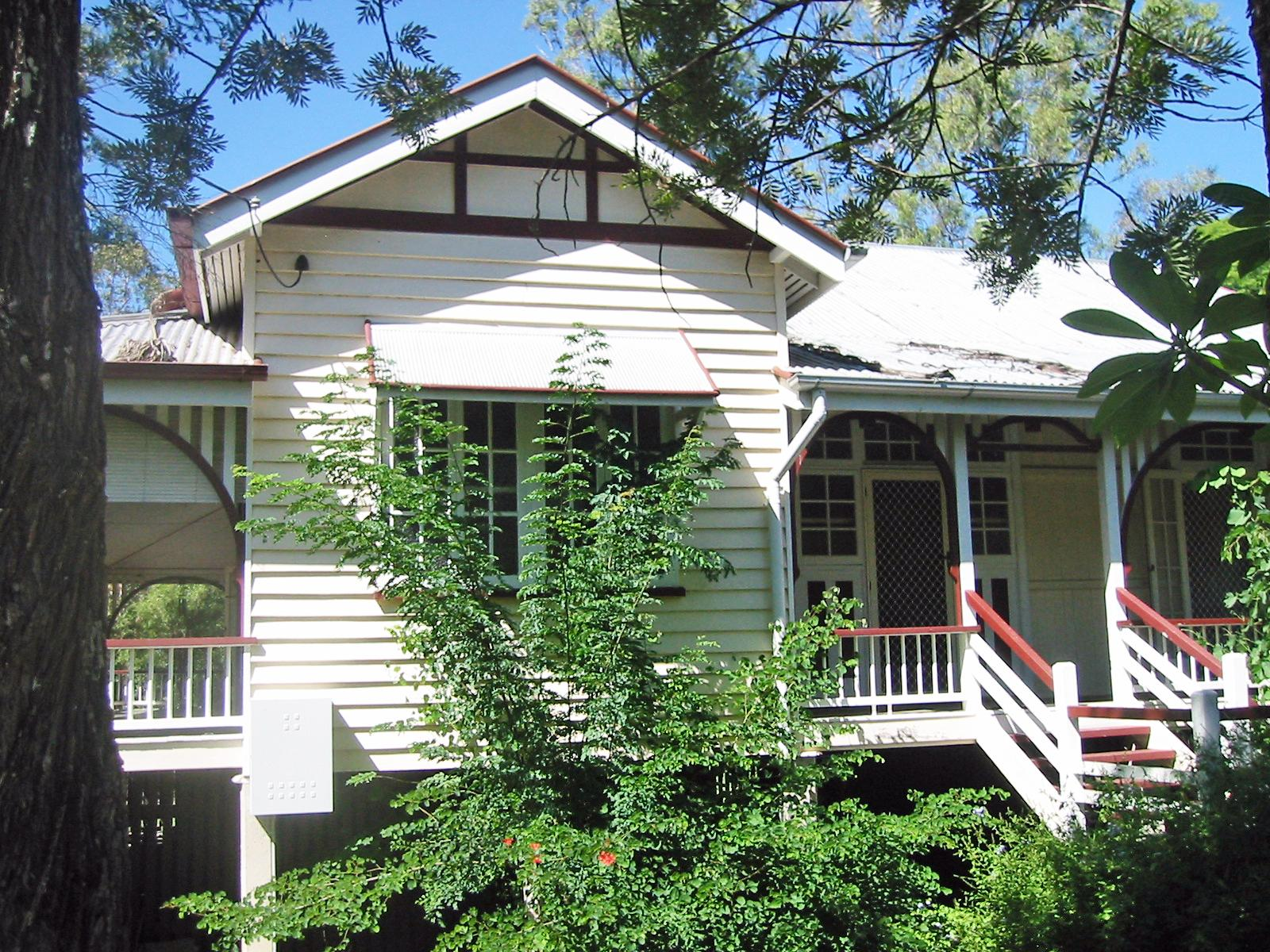 Heritage listed weatherboard rectory building housing the Anglican minister of the Brisbane Valley Parish.